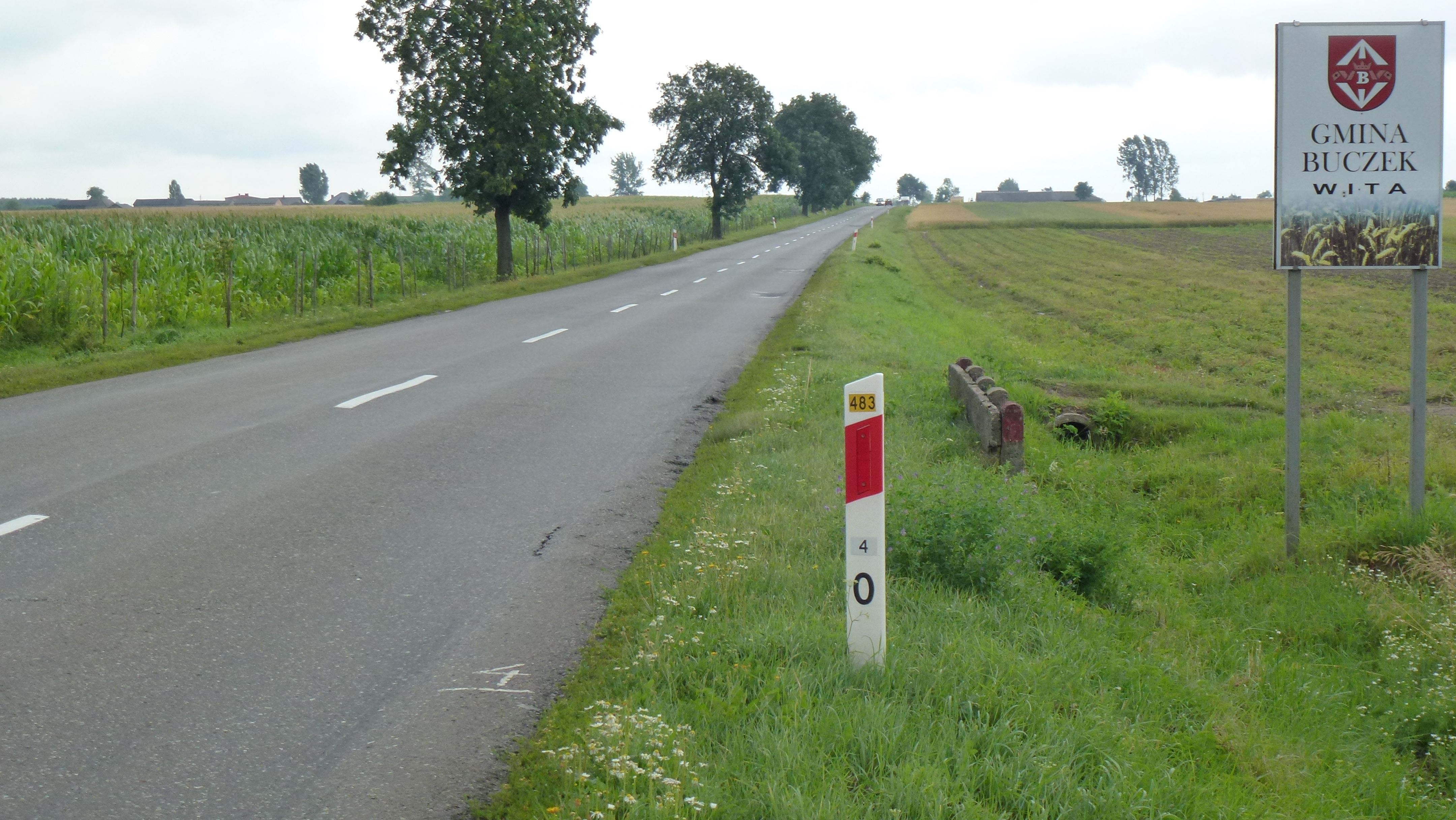 Witacz Gmina Buczek na DW